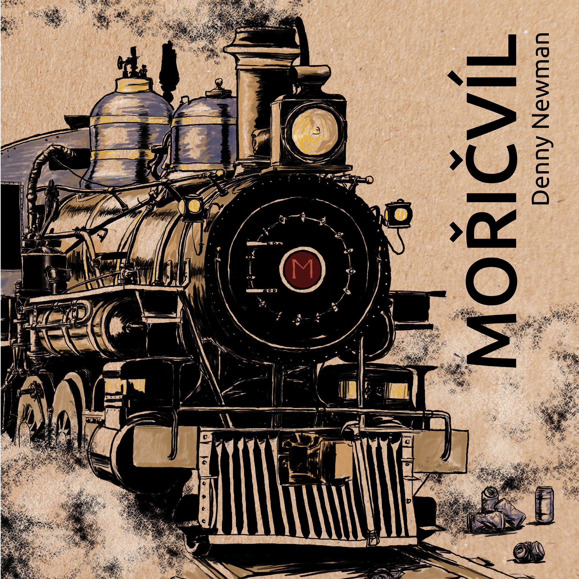 CD cover of Mořičvíl audiobook from Denny Newman